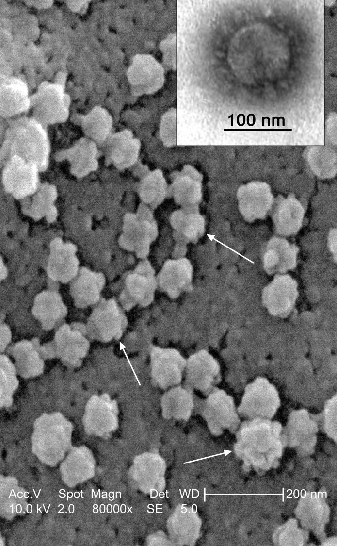 Scanning Electron Micrograph Showing the “Rosettelike” Appearance of the Matured SARS-CoV (Coronavirus) Particles (Arrows) This scanning electron micrograph emphasizes the form and structure of the virus particle, or virion, made visible with negative staining (inset) under transmission electron microscopy. Short and stubby spikes are visible on the virus surface. (Photo: CDC/Mary Ng Mah Lee, National University of Singapore, Singapore)-From paper